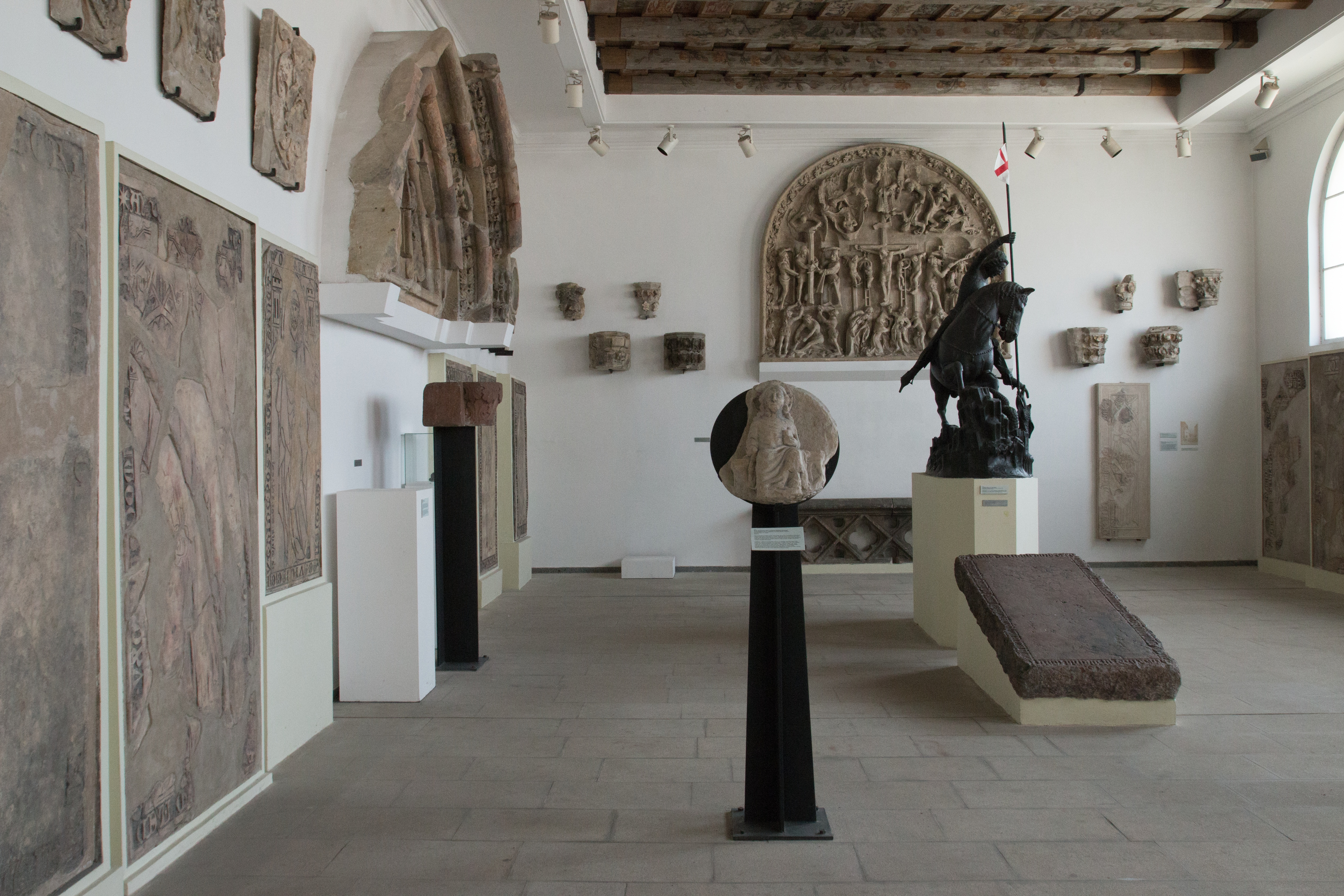 Part of the first hall of medieval sculptures and building cells. Lapidary of the National Museum in Prague.